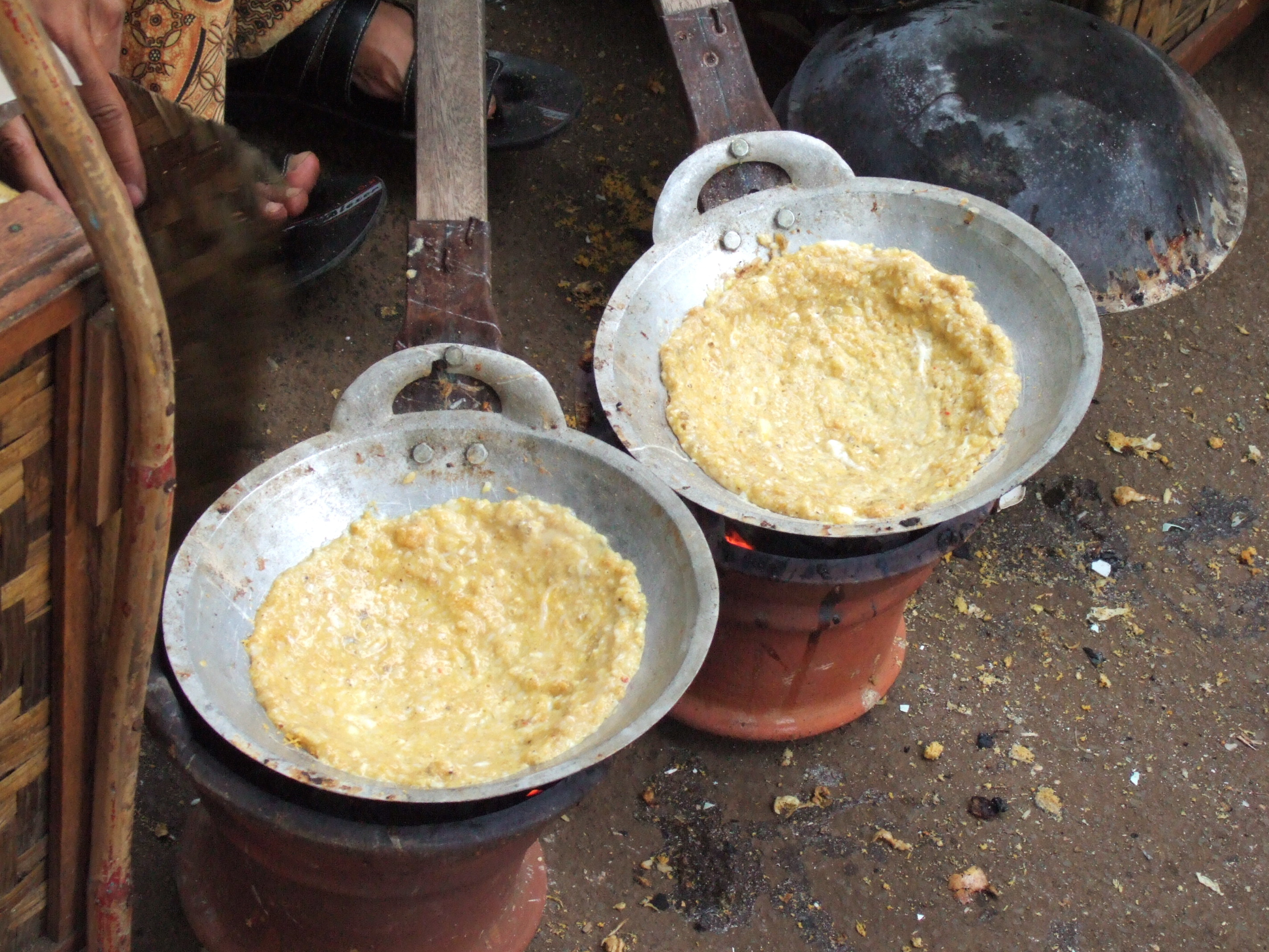 Spicy fried egg with sticky rice